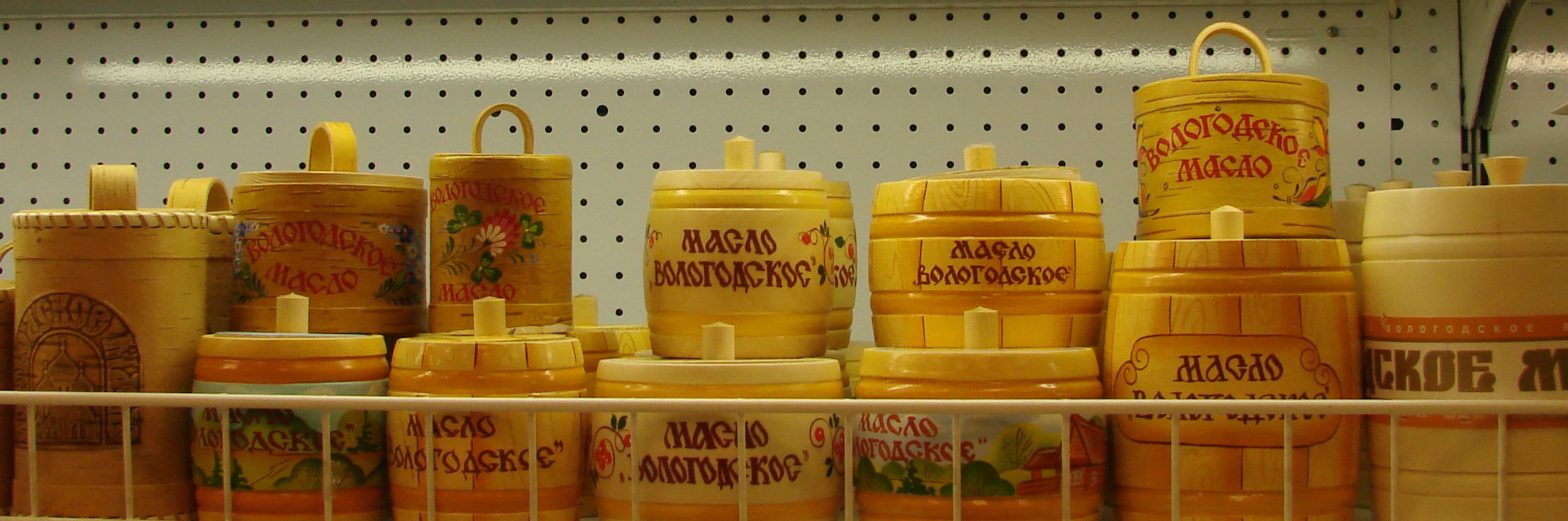 Vologda butter in the supermarket